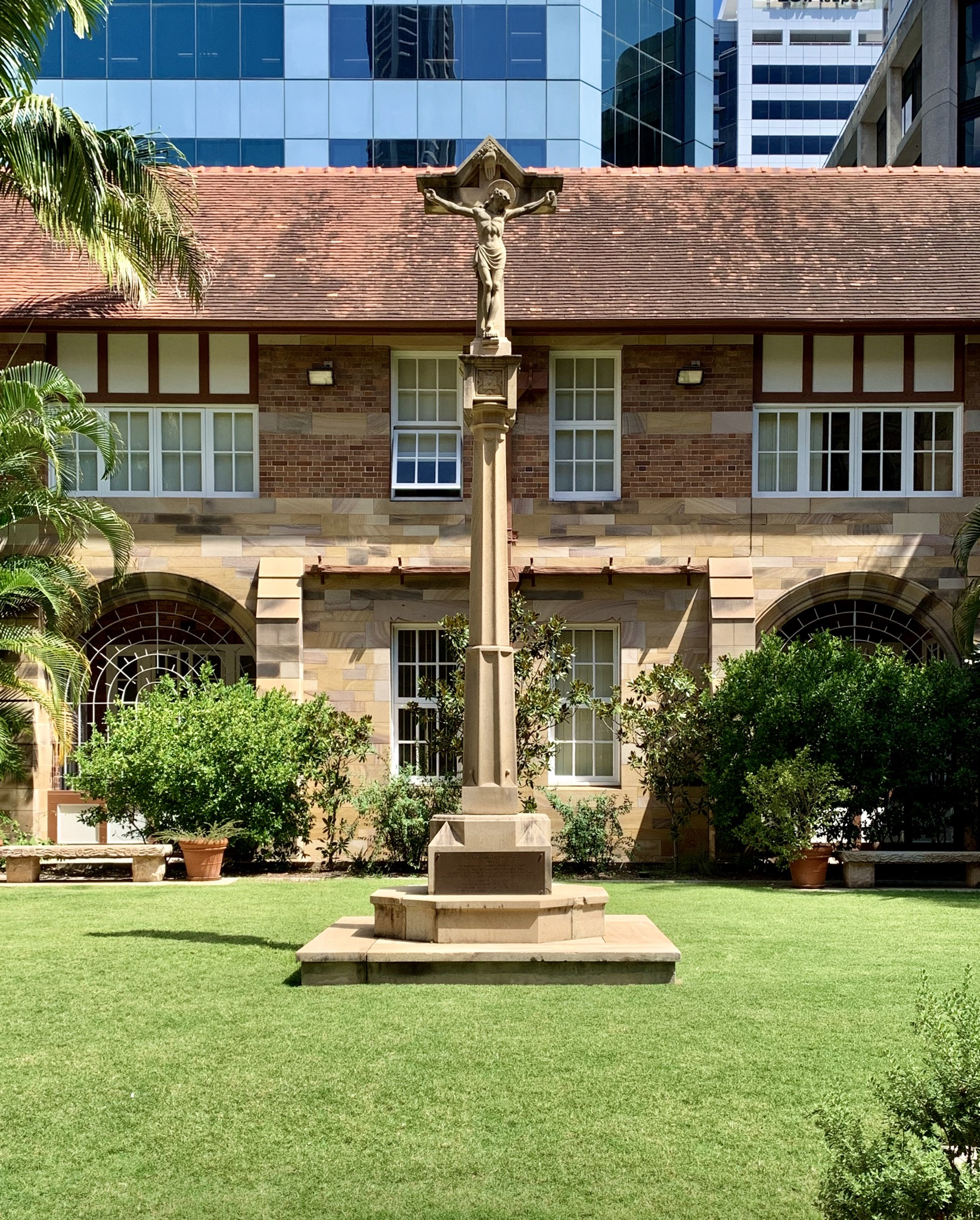 Henry Frewen Le Fanu Memorial, St Martin's House, Brisbane, Australia